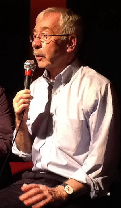 Photograph of Gerald Hannon speaking at The Company House in Halifax, Nova Scotia, Canada on 2013-11-03